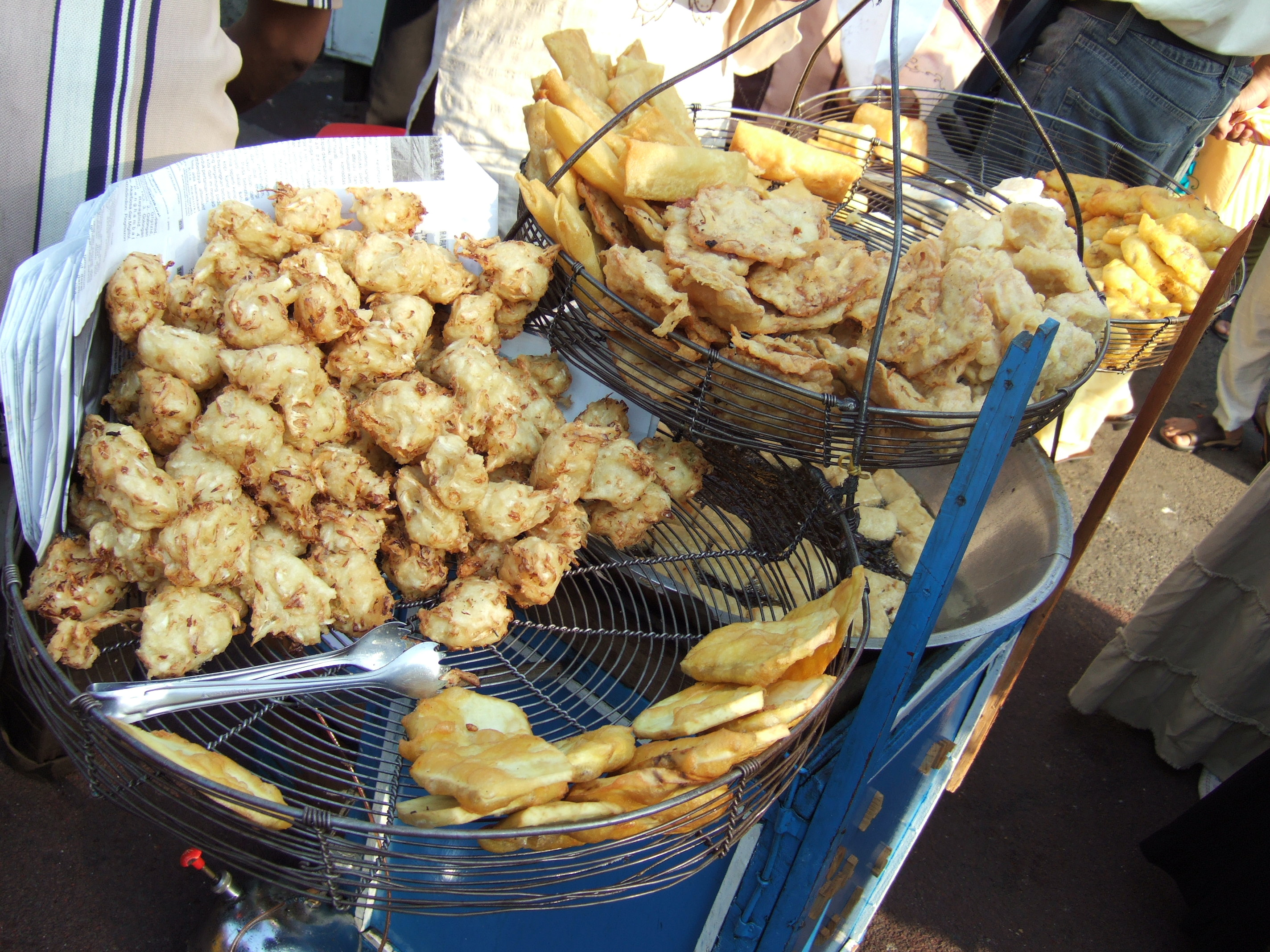 Different kinds of fritters, Jakarta, Indonesia